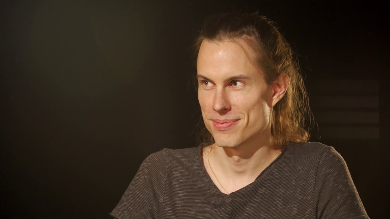 Tomas Mikolov giving and interview to Neuron